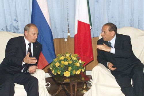 PRATICA-DI-MARE (Italian Air Force base). President Putin with Italian Prime Ministers Silvio Berlusconi.